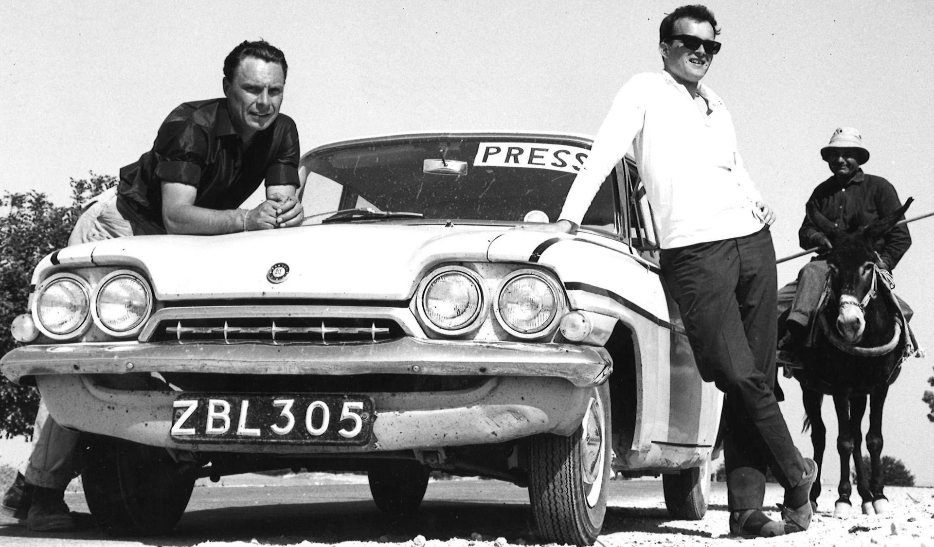 Photograph of the Finnish journalists Pertti Jenytin (1932–) and Jussi Niininen (1940–2009) in Cyprus.